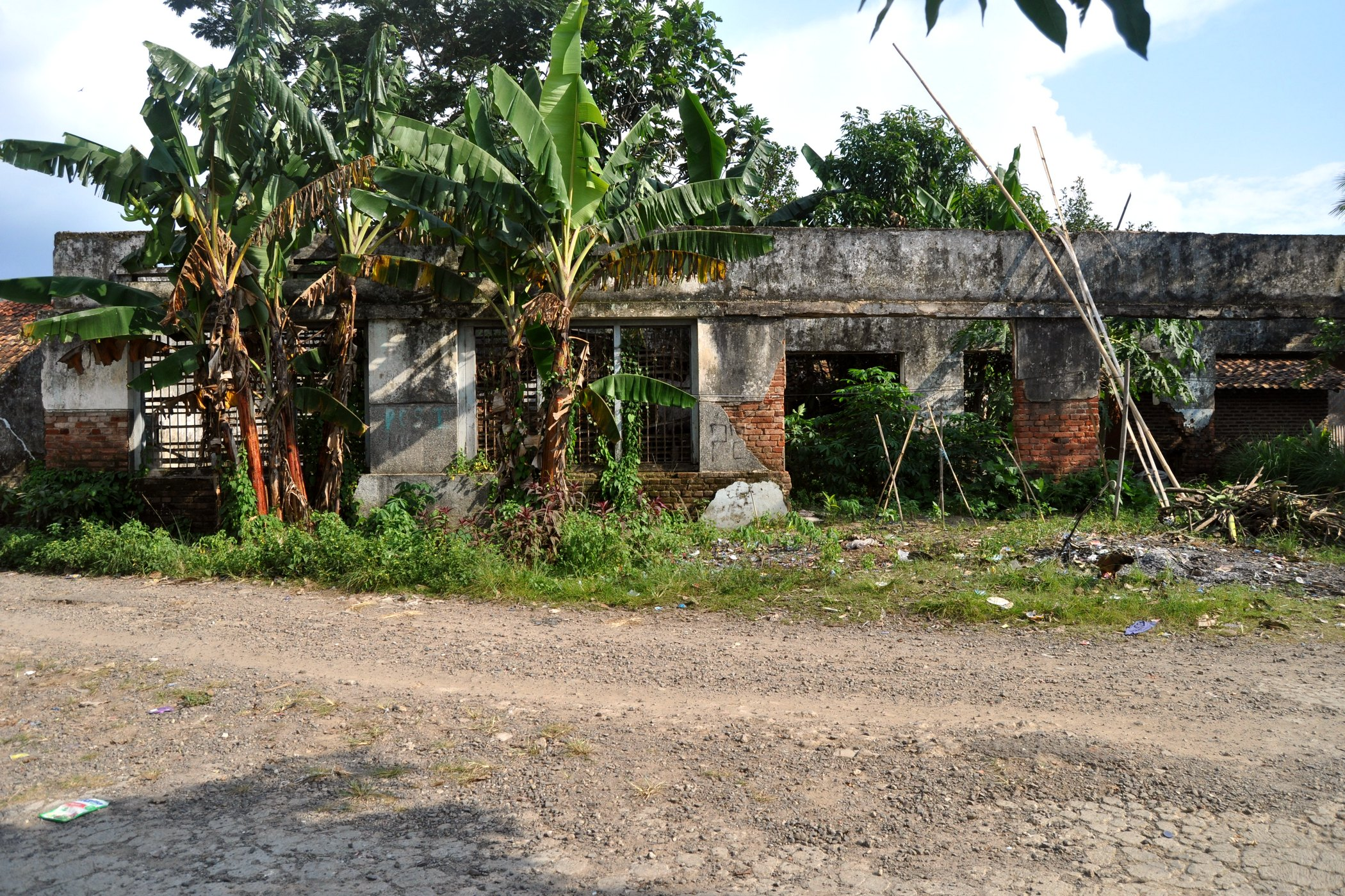 Ruins of Pandeglang train station, closed since 1982, in Pandeglang, Province of Banten (Bantam), Indonesia. Front view.